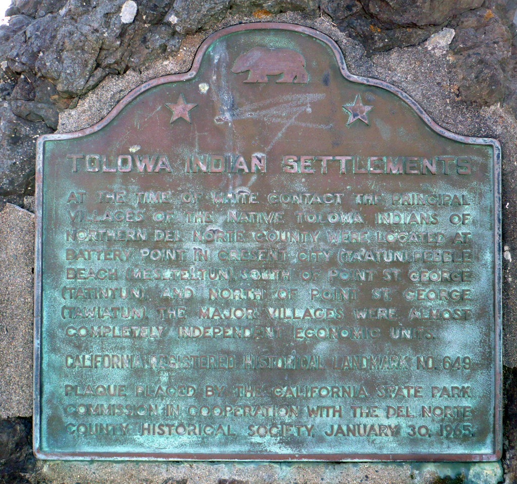 California Registered Historical Landmark No. 649 Site of old Indian Village at Pebble Beach, Crescent City, California. California Registered Historical Landmark No. 649 plaque reads: "Tolowa Indian Settlements. At the time of white contact the principal villages of the native Tolowa Indians of northern Del Norte County were located at Battery Point in Crescent City (Ta'atun), Pebble Beach (Meslteltun), south of Point St. George (Tatintun), and north of Point St. George (Tawiatun). The major villages were almost completely independent economic units. California Registered Historical Landmark No. 649 Plaque placed by the California State Park Commission in cooperation with the Del Norte County Historical Society, January 30, 1965."